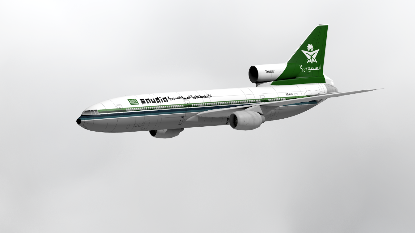 Saudi Arabian Airlines Flight 163